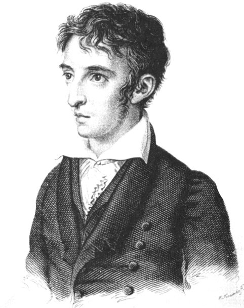 Heinrich Boie (1784-1827). Drawing, probably early 19th century. Picture signed (sleeve, right corner)(unreadable)